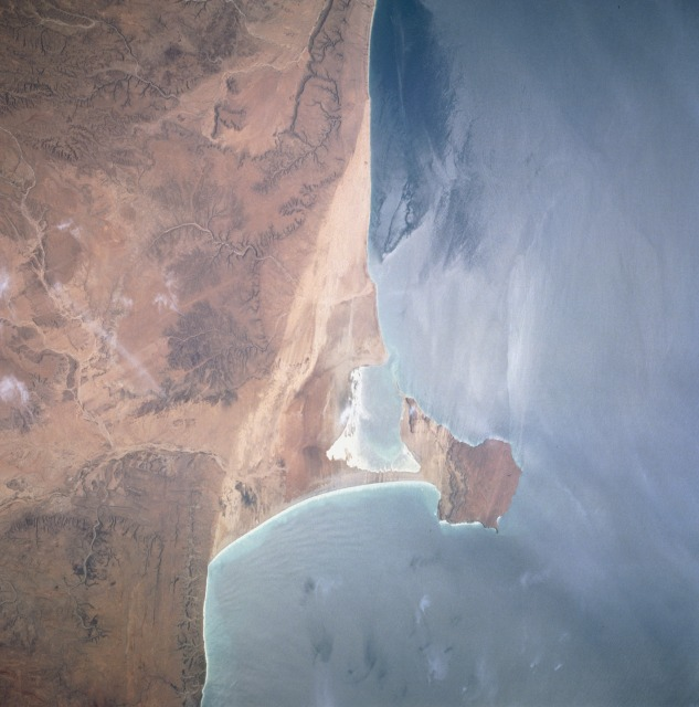 Hafun (Xaafuun) Peninsula, Northeast Somalia September 1995